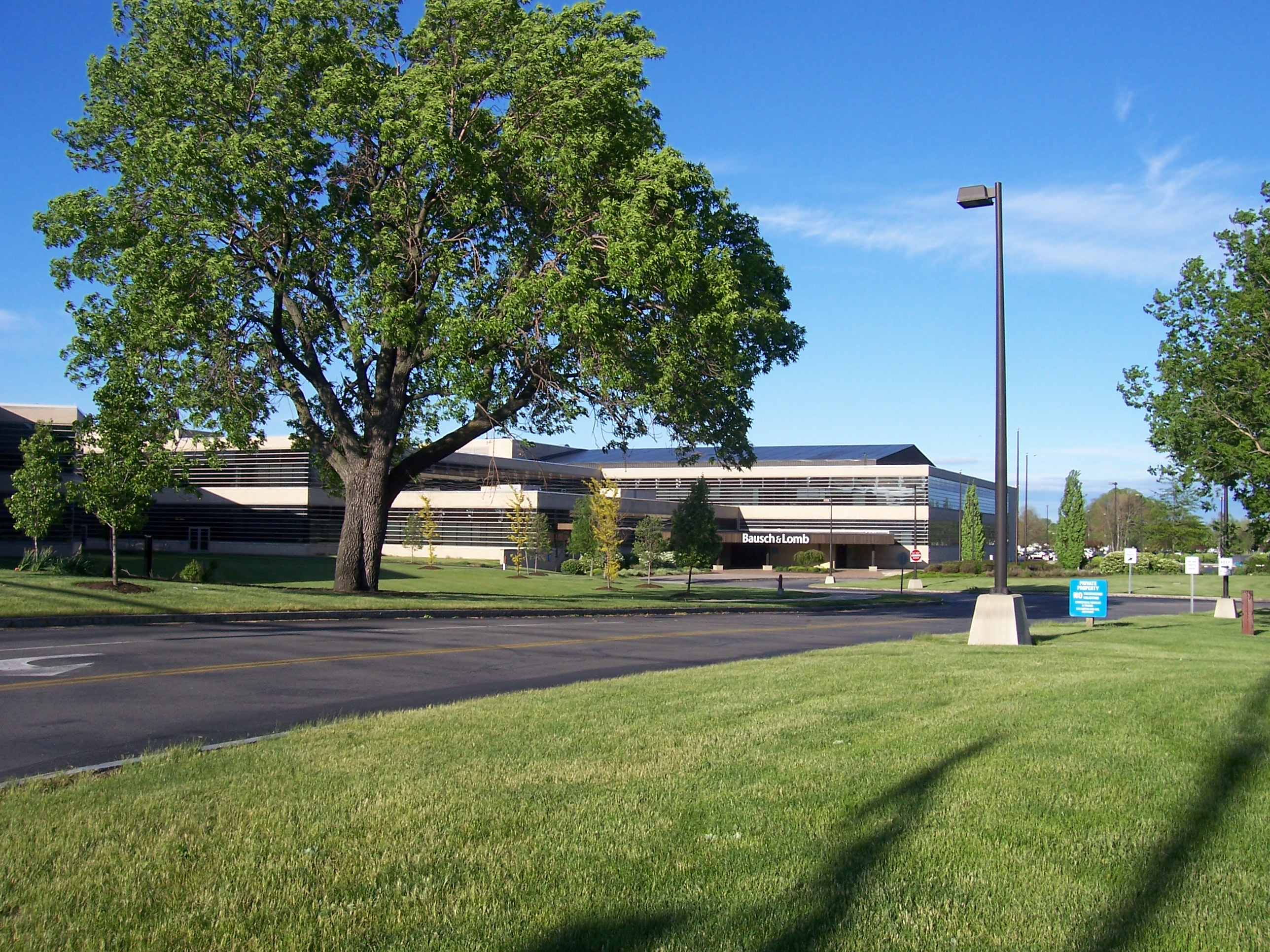 Bausch & Lomb Vision Care division campus in Rochester, New York